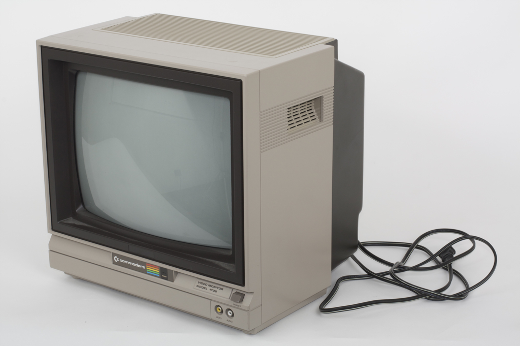 the ever-so wonderful 1702 monitor. still works perfectly.